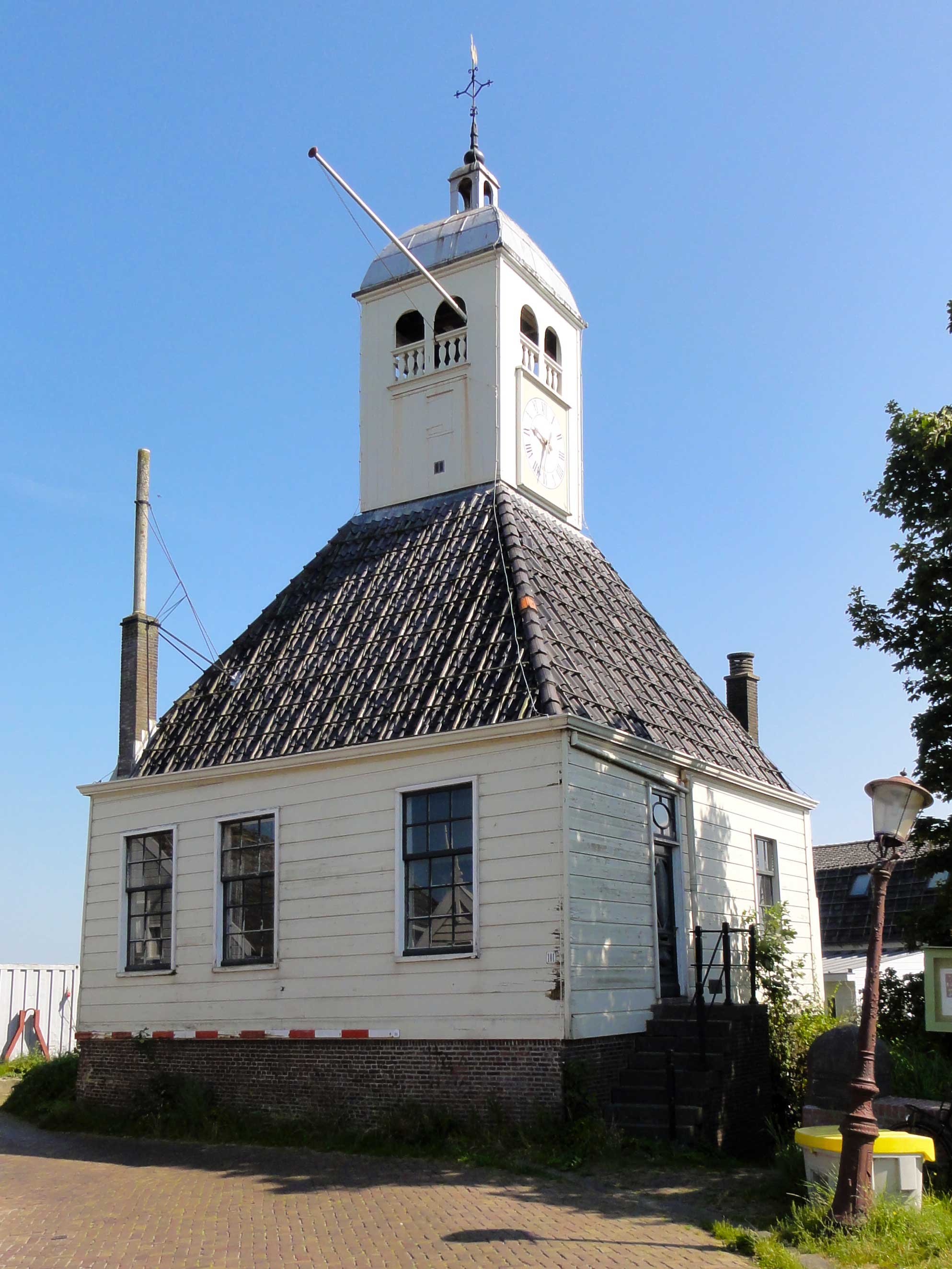 Durgerdam, former town hall, built in 1687